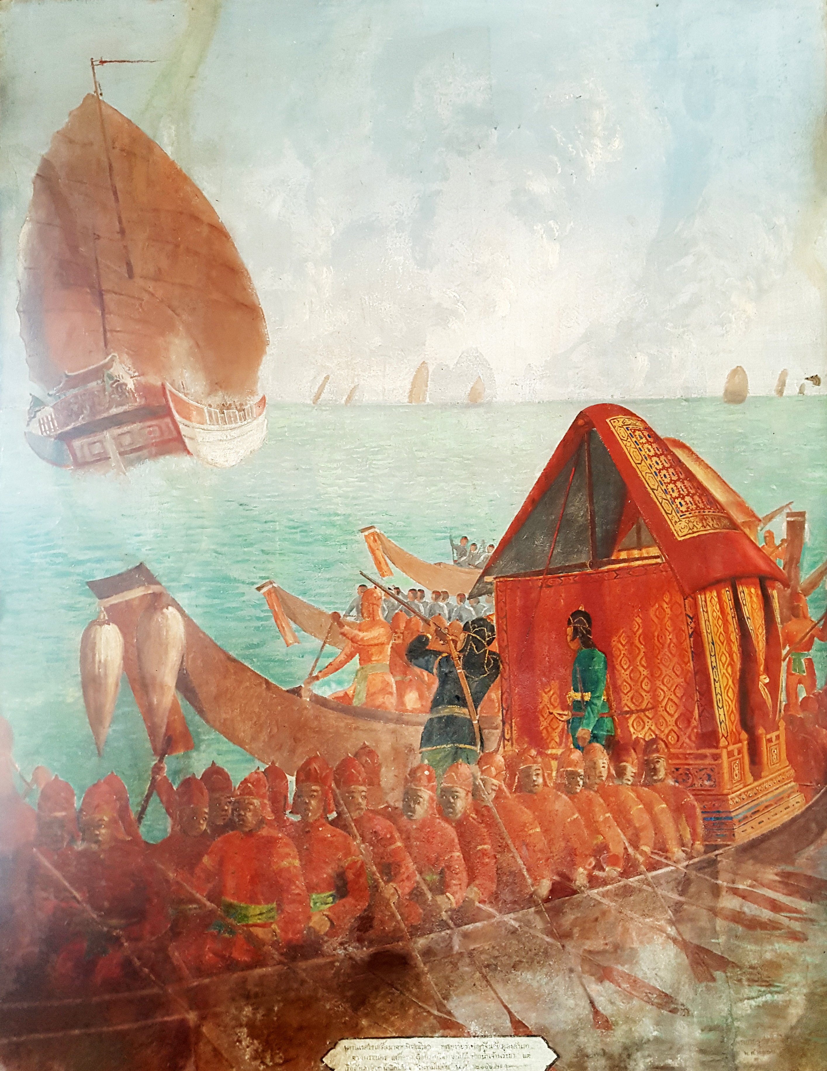 Painting: Naresuan the crown prince of Ayutthaya pursued the junk of Phraya Chin Chantu (พระยาจีนจันตุ; literally "Chantu the Chinese duke"), a Chinese warlord who acted as a secret agent in Ayutthaya for Khmer, in 2116 Buddhist Era (falling between 1573/74 Common Era). Place: Mural painting inside the wihan of Wat Suwan Dararam, Phra Nakhon Si Ayutthaya Province, Thailand. Painter: Noble title: Phraya Anusat Chittrakon (พระยาอนุศาสนจิตรกร) Real name: Chan Chittrakon (จันทร จิตรกร) Year painted: 2474 Buddhist Era (falling between 1931/32 Common Era)